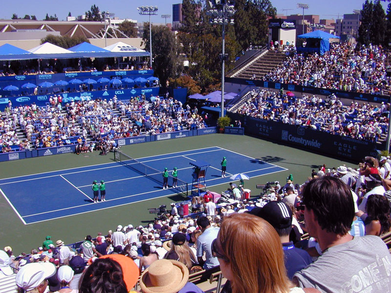 Los Angeles Tennis Center, Straus Stadium, UCLA, Los Angeles California